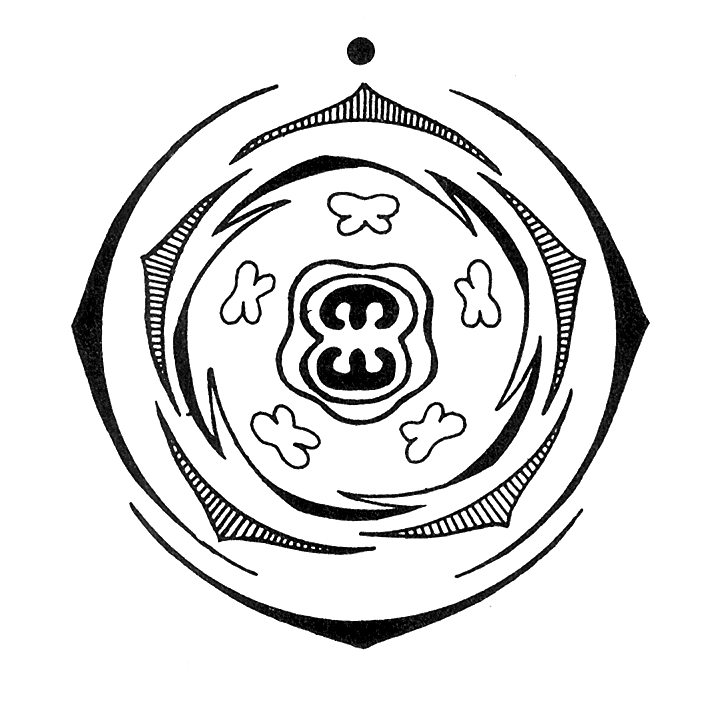 Representative flower diagram of plant family Convolvulaceae